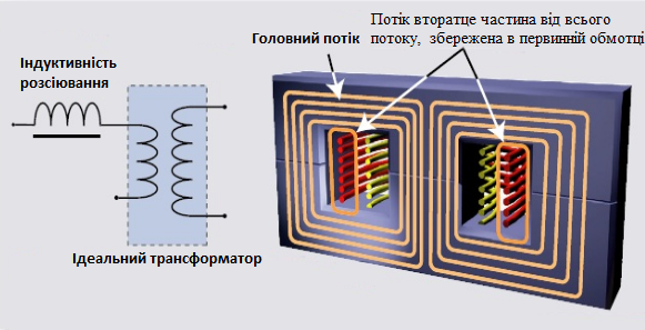 real transformer